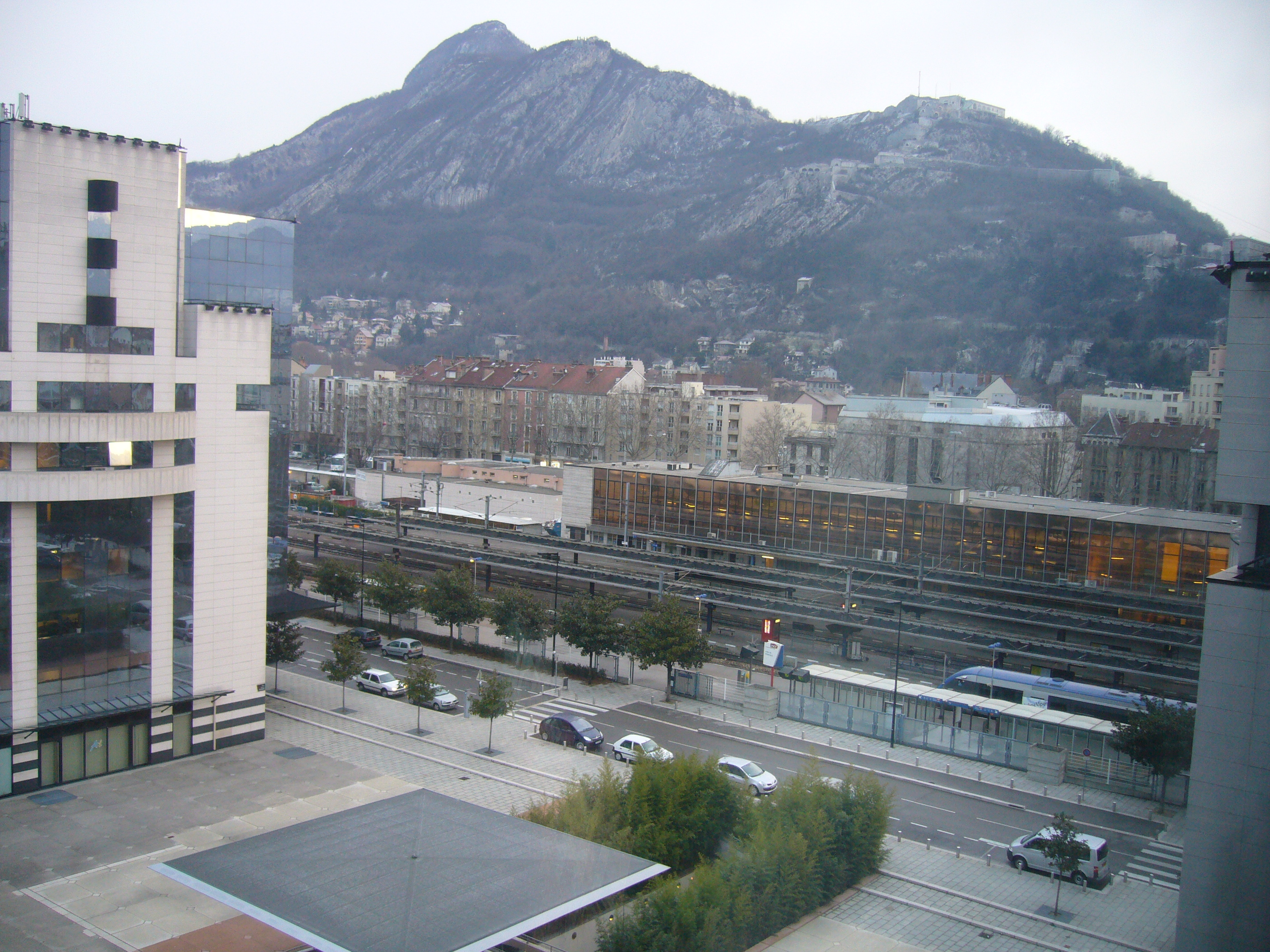 The train station of Grenoble, taken from a nearby hotel.